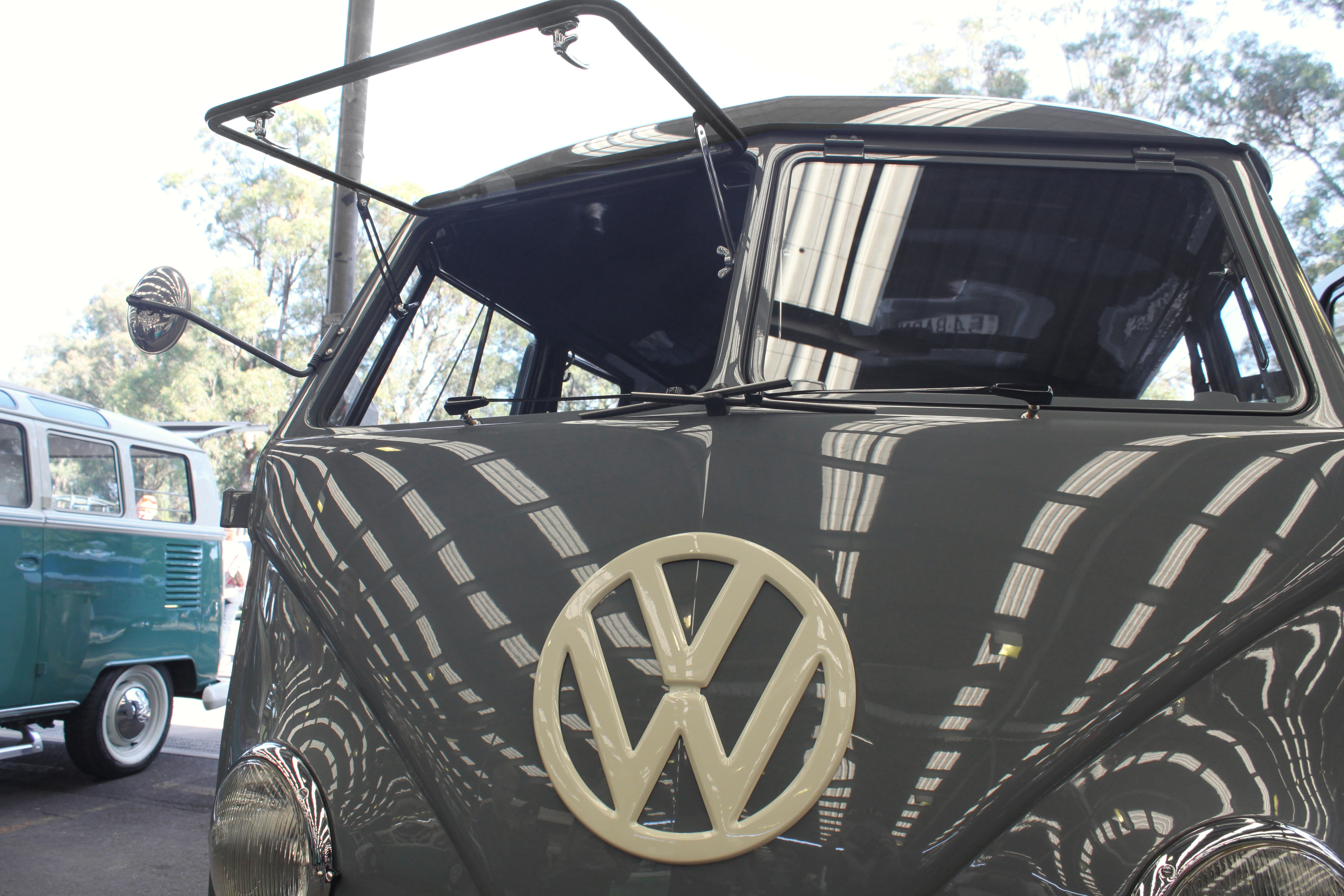 Volkswagen Nationals, Fairfield Showground, NSW, 2015